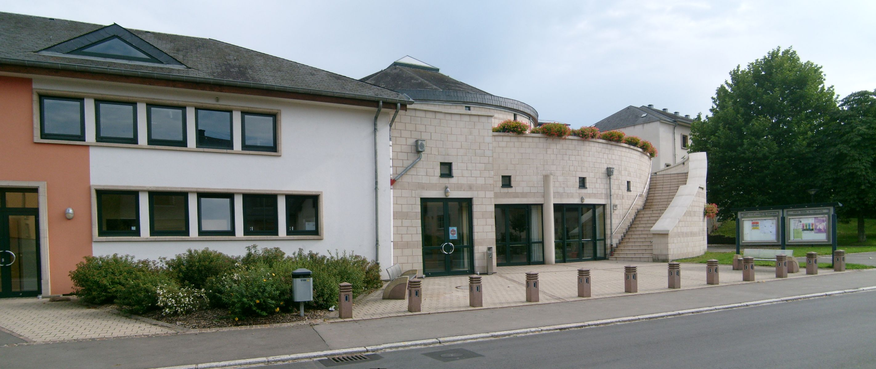 The town hall of the village of Colmar-Berg, Luxembourg.